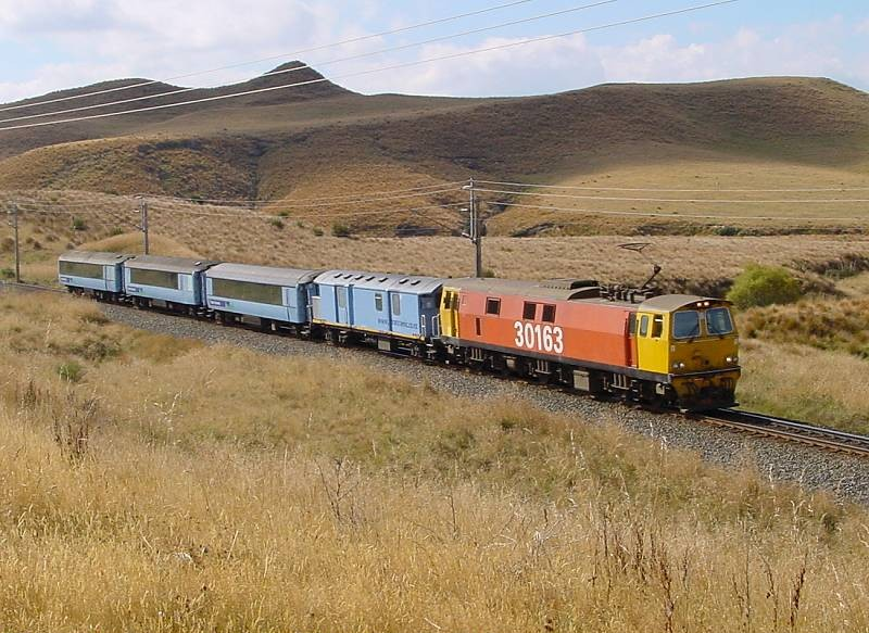 EF 30163 is seen with a southbound "Overlander" near Waiouru on the 22nd of March 2003Photo by: Joseph ChristiansonSource: Unpublished Collection